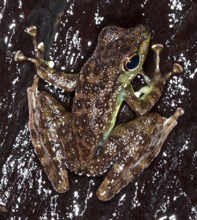 Male of the Black-spotted Rock Frog (Staurois guttatus) in its natural habitat.